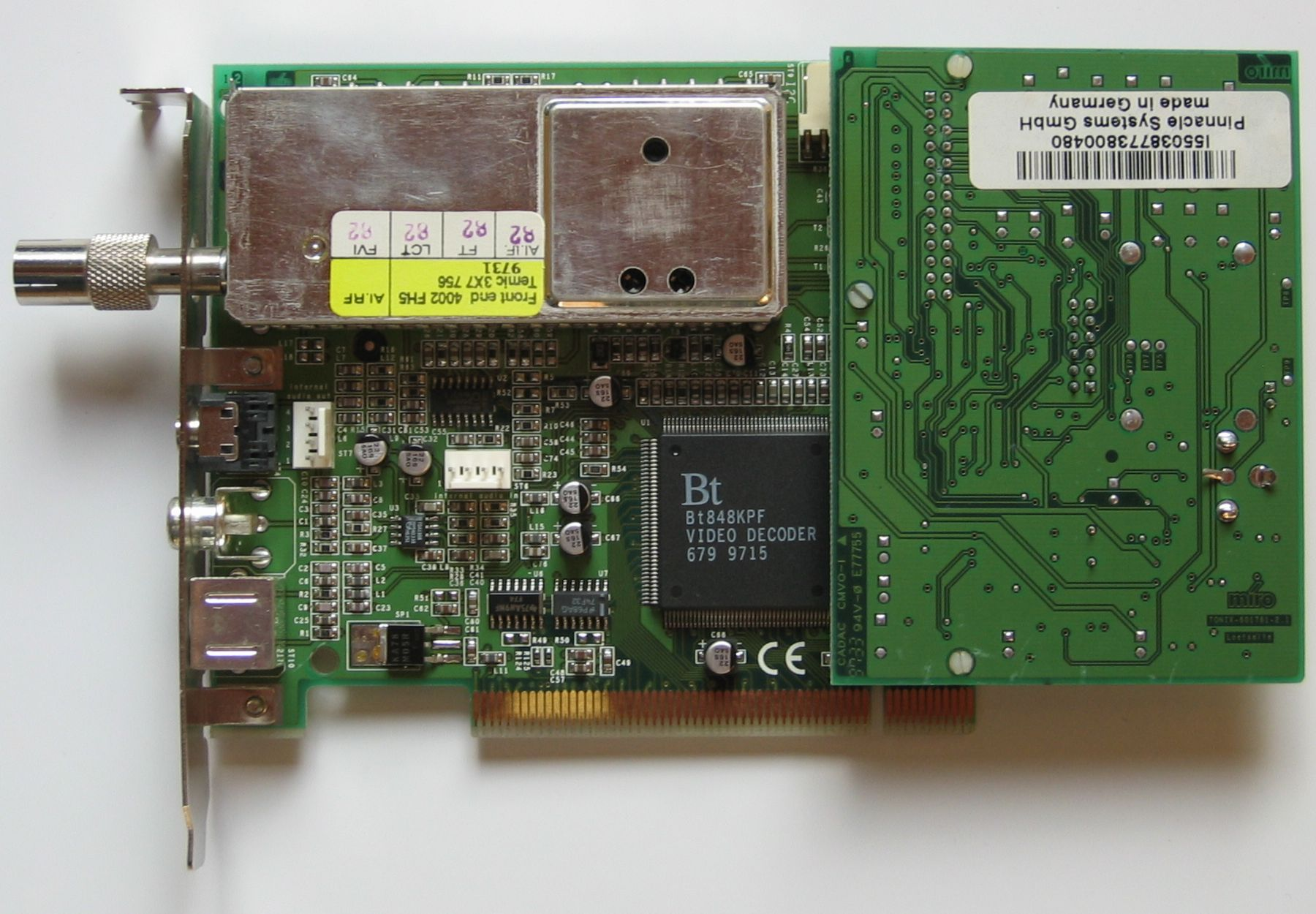 TV tuner card Miro PCTV Pro, FM radio, PCI, Video-Decoder: Brooktree BT848 KPF, Tuner: Temic 4002 FH5, Audio-Chip: ITT MSP 3410B